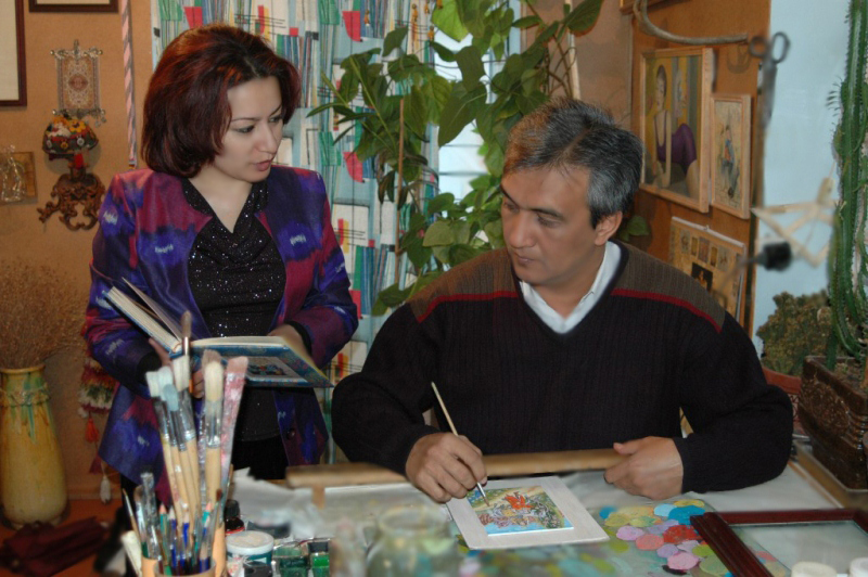 Family of artists, Olim Kamalov and Sarvinoz Hodjieva Тоҷикӣ: Олим Камолов и Сарвиноз Хоҷиева, рассомони Тоҷикистон